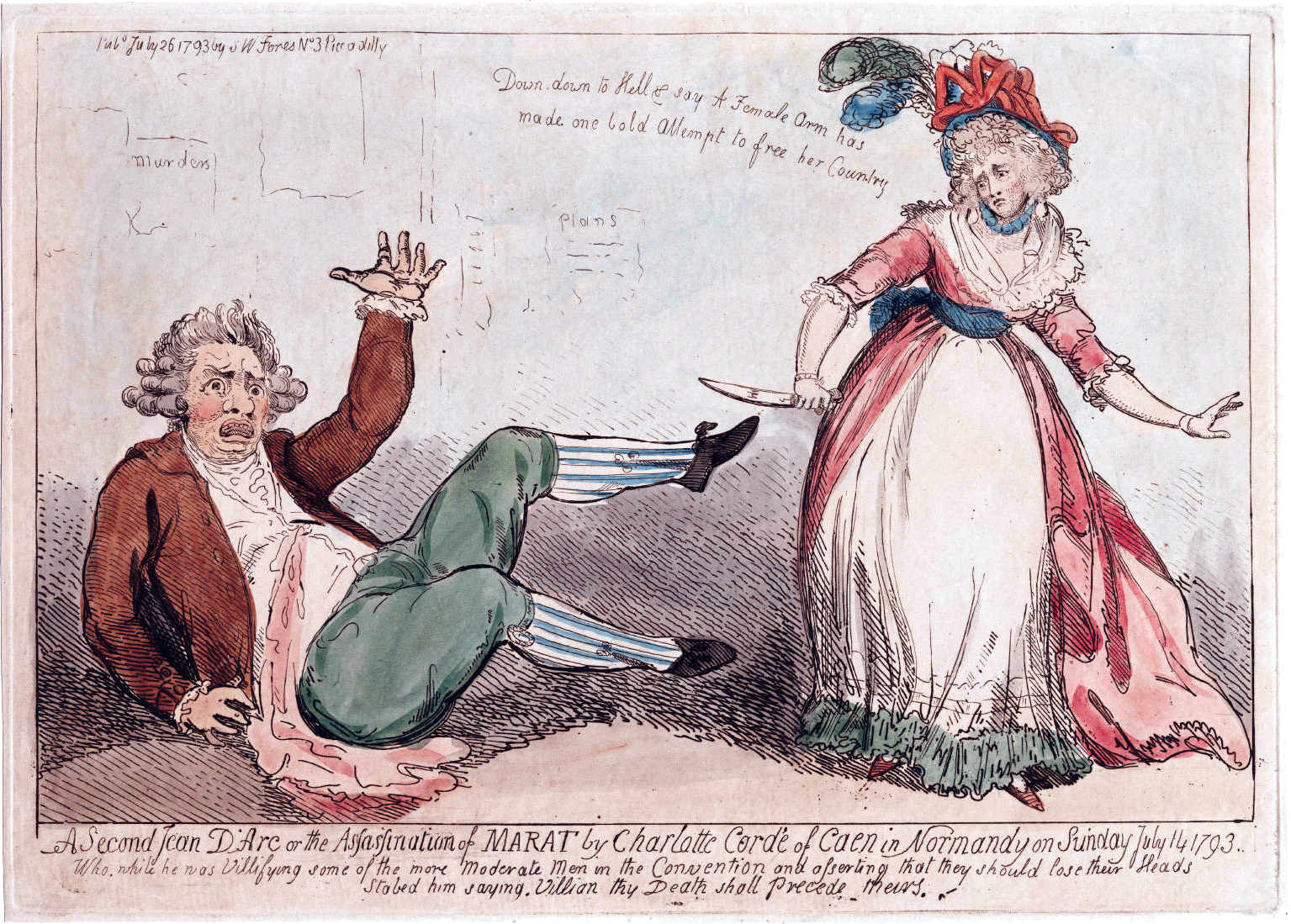 Print on wove paper : etching, hand-colored ; plate mark 24.7 x 35 cm., on sheet 26 x 36 cm.